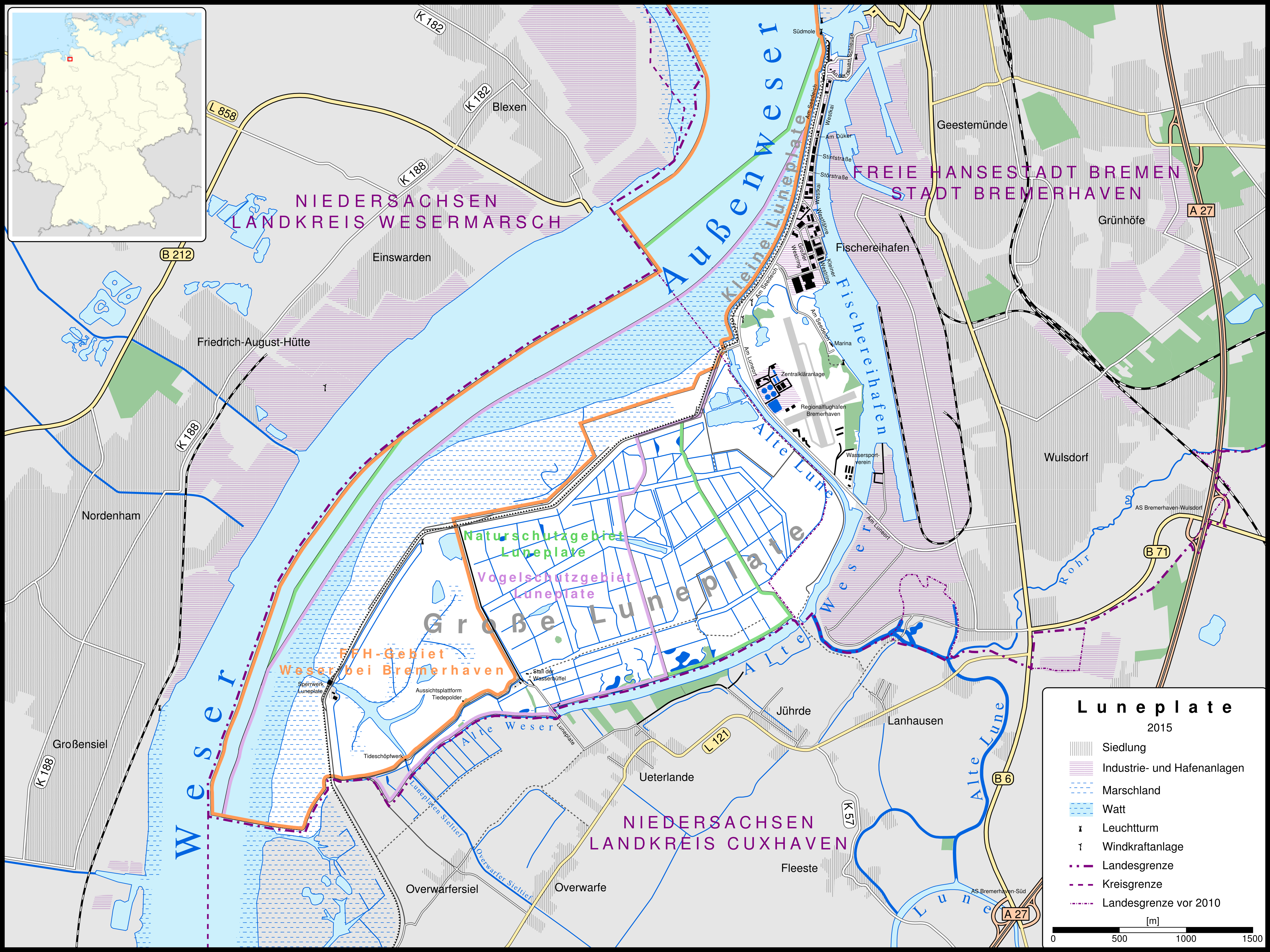 Map of Luneplate